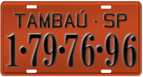 Old brazilian vehicle identification plate, particular category, from 1964.